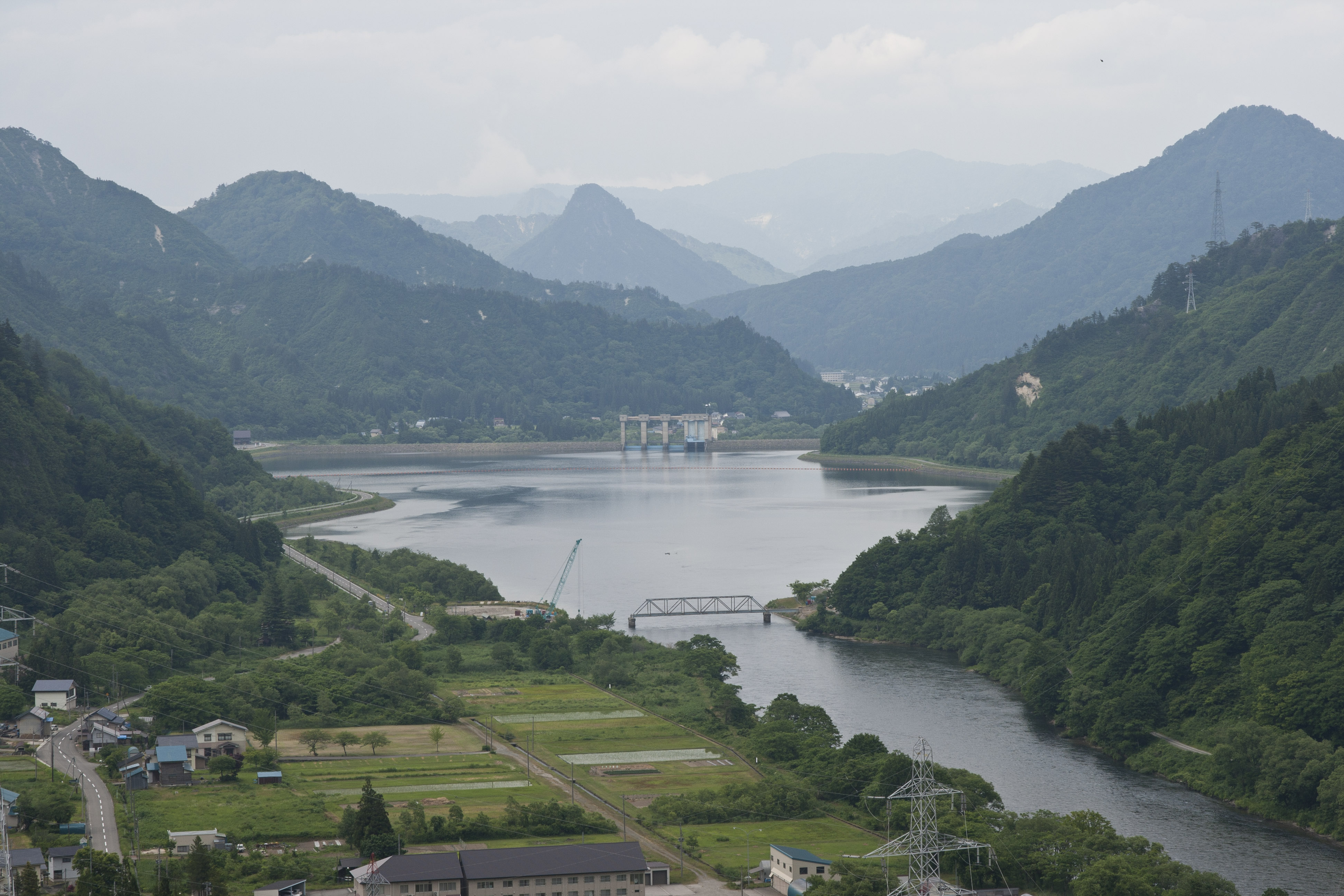 Tadami Dam, Tadami Town, Fukushima Pref., Japan.